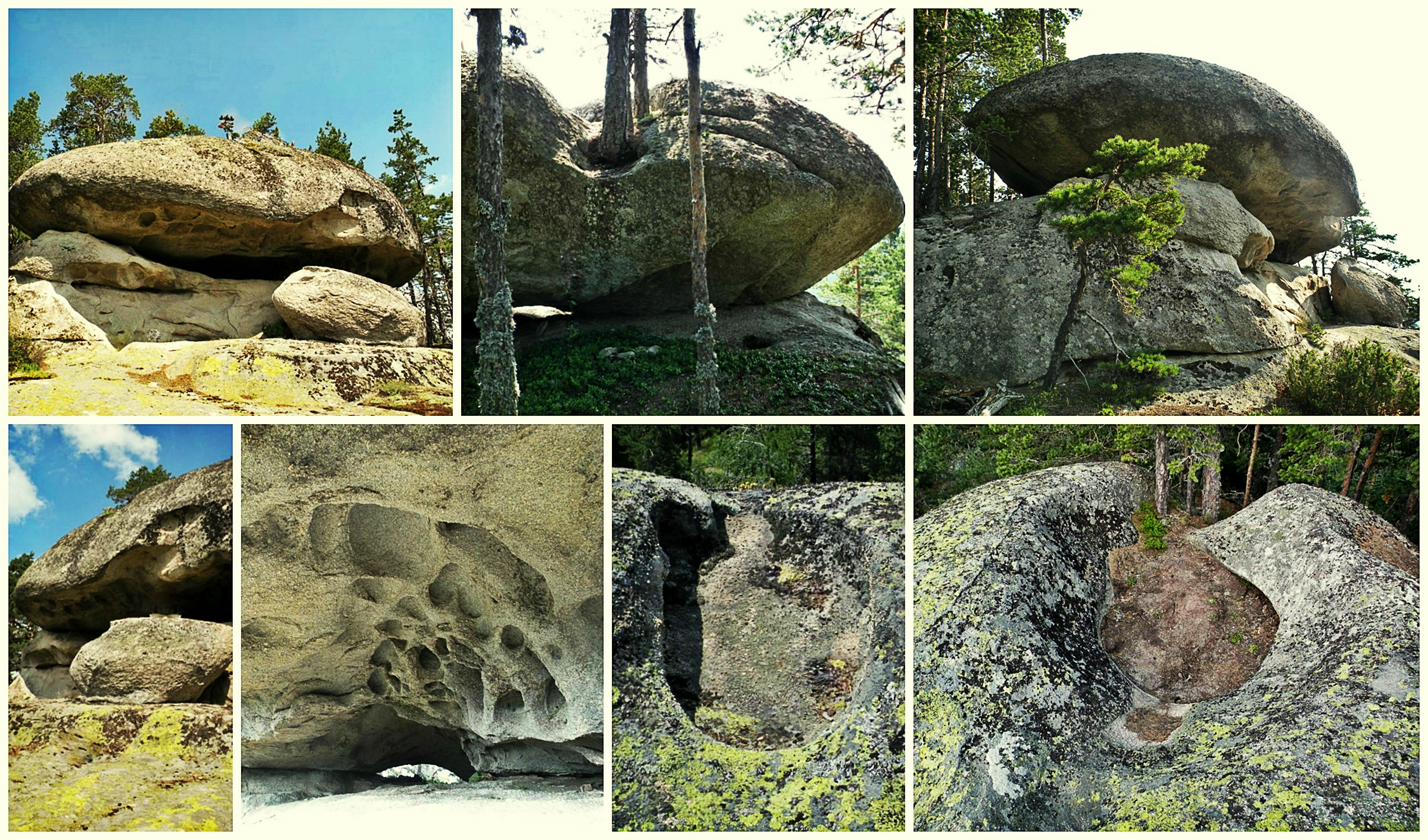 Selanov_buk_Sanctuary_elements_WestRhodopes_BG